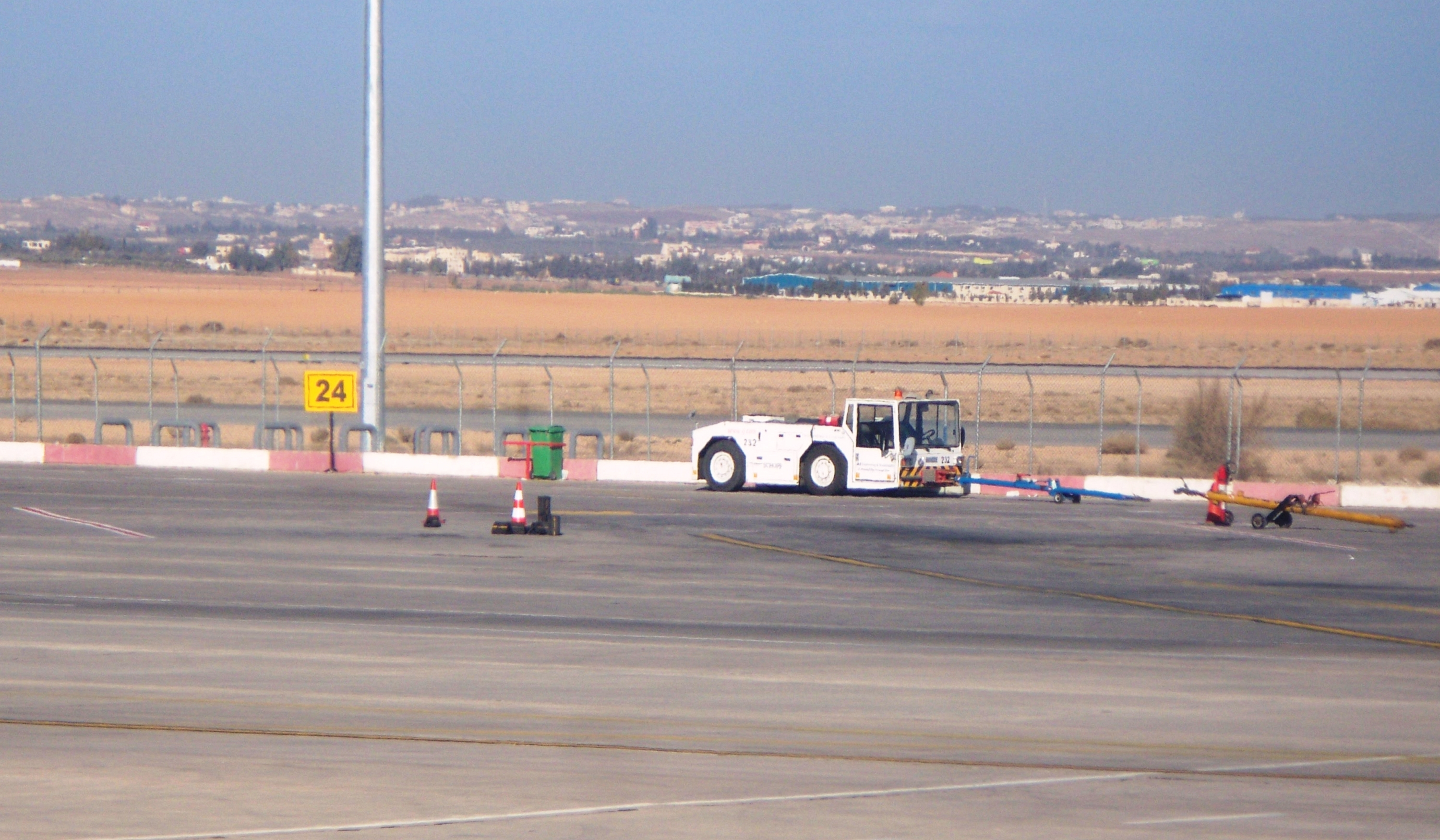 Pushback tractor at Queen Alia International Airport, Jordan during midday heat.